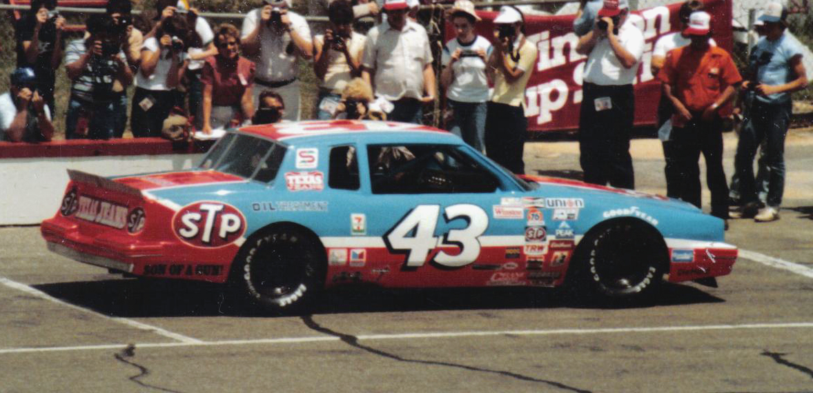 The Petty Enterprises STP Pontiac of The King Richard Petty. Richard had a good run in the 1983 Van Scoy 500, leading 21 laps and finished 3rd.